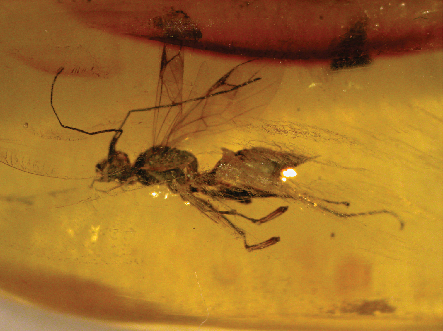 Dryinus rasnitsyni. Female holotype. Length 7.4 mm.